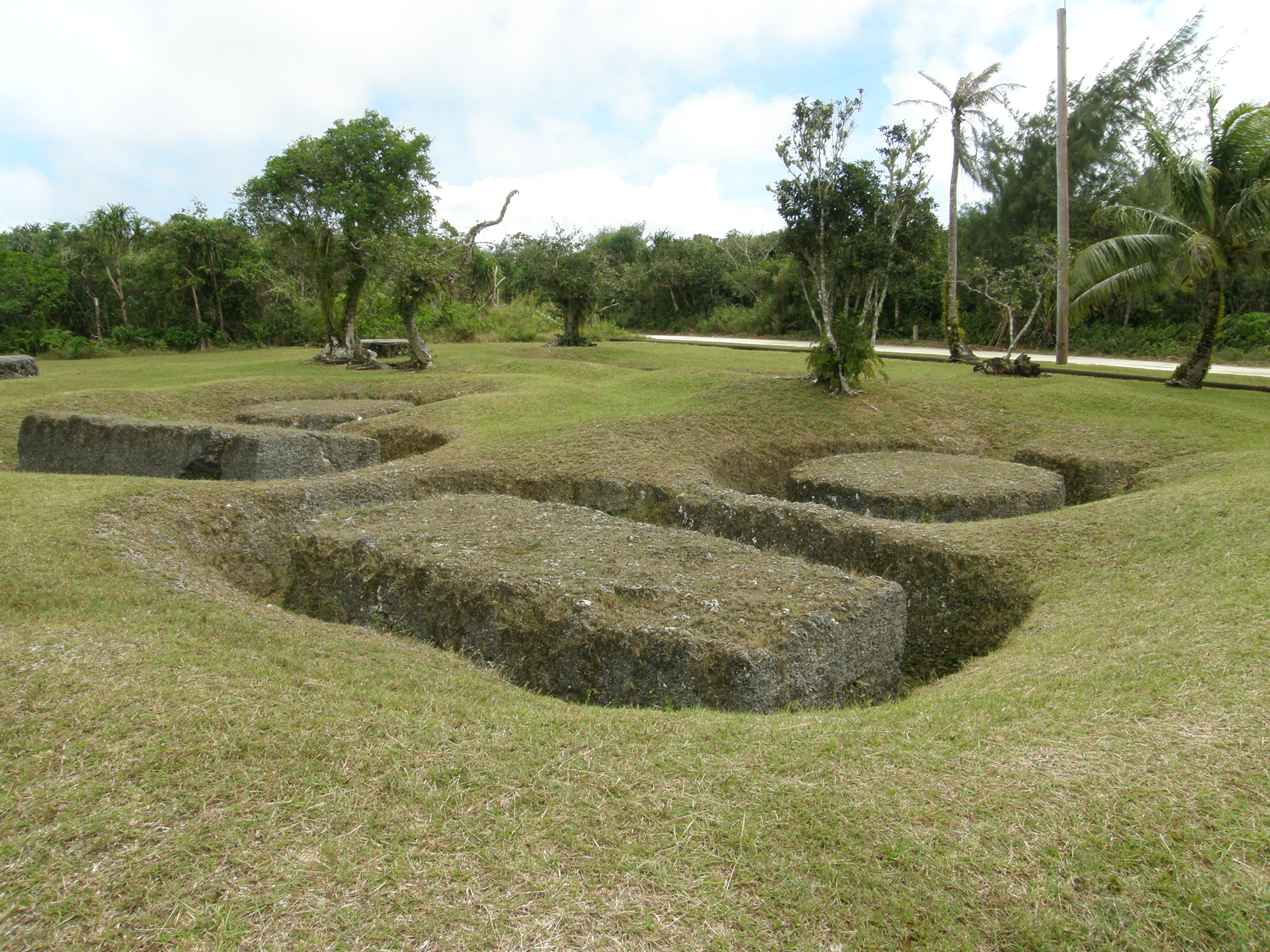 This photo is of the latte quarry site known as As Nieves Latte Quarry. It's located on the island of Rota, Northern Mariana Islands. I Richard Torres, Burlingame, California, USA took this photo in January 2014.